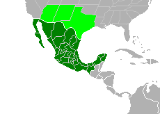 Map showing Mexican territory in 1916 (dark green), with territory promised to Mexico in the Zimmermann telegram denoted in light green.